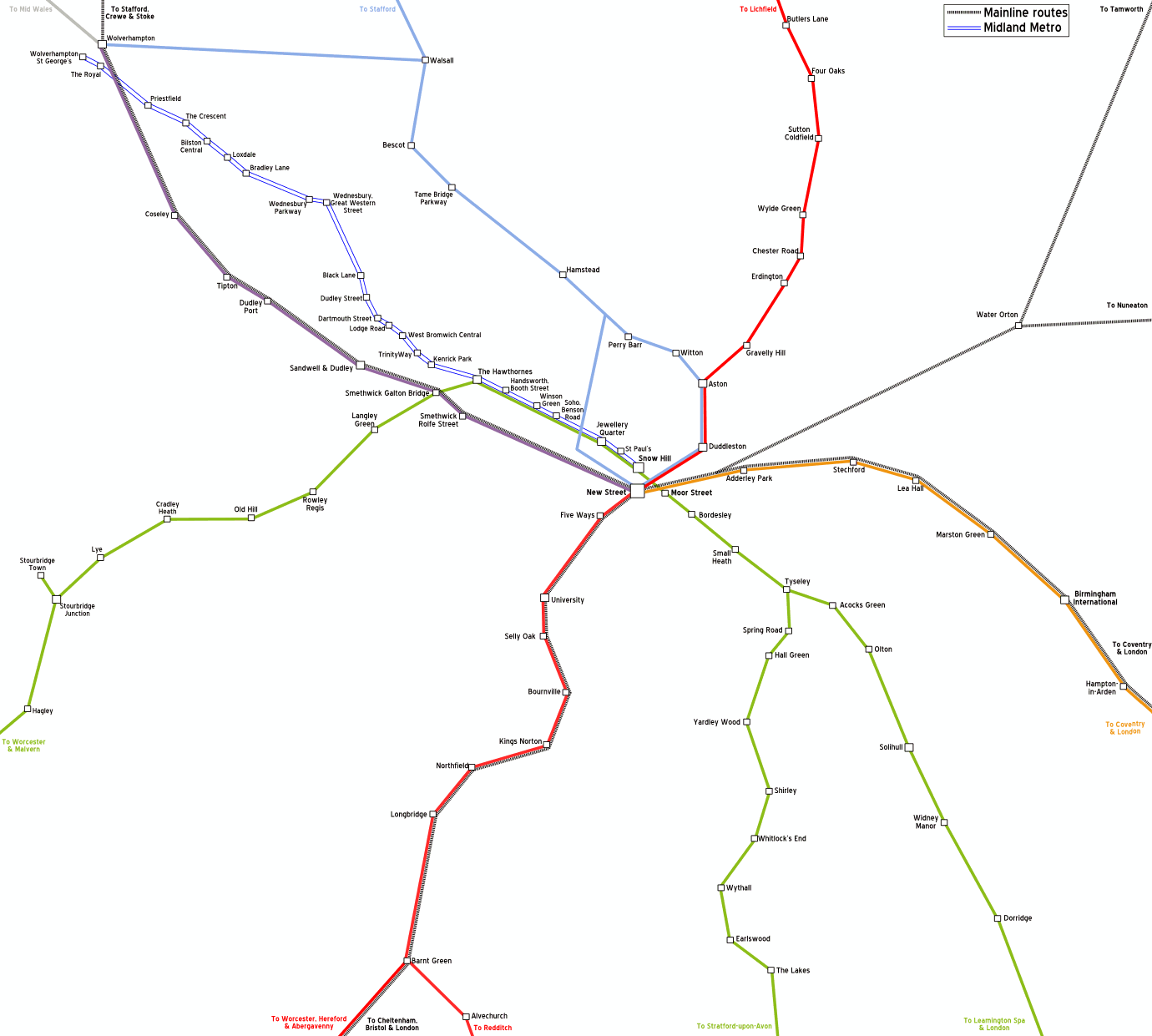 Map of train and tram routes in Birmingham, England. Source: :Image:Birmingham UK transport map.svg map: England Map of: England